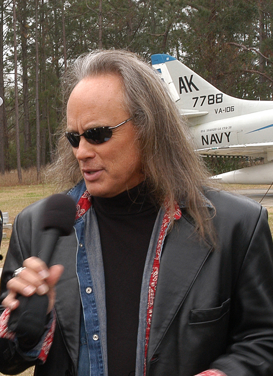 Lynyrd Skynyrd's drummer, Rickey Medlocke speaks with sailors at Naval Air Station (NAS) Jacksonville, Fla. The band visited NAS Jacksonville prior to playing in the Pepsi Smash Super Bowl Concert that will be televised Saturday February 5, 2005.